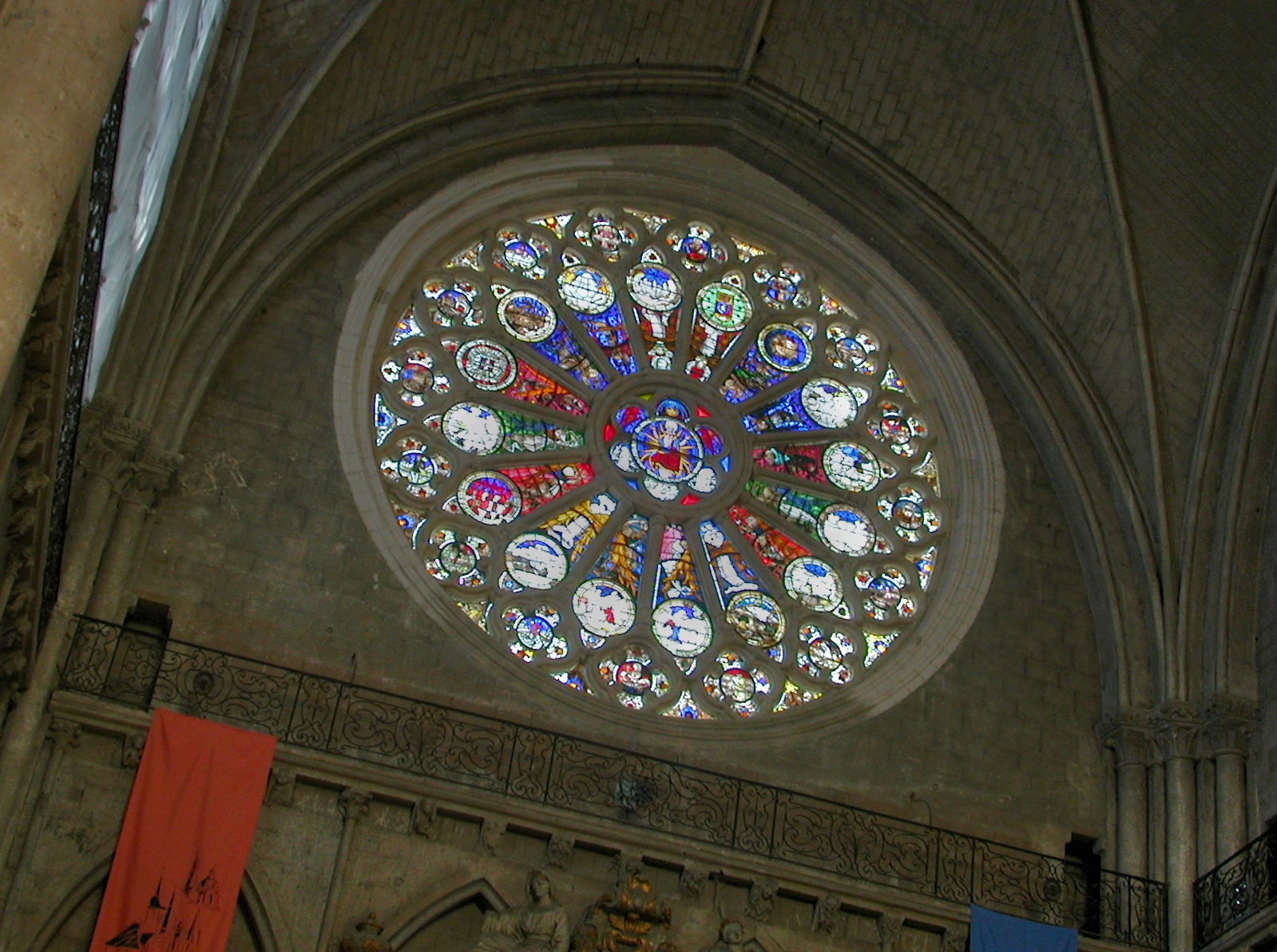 Northern rose window of the Angers cathedral